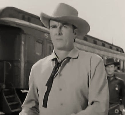 Ian MacDonald in High Noon - trailer (cropped screenshot)